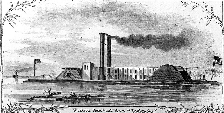 USS Indianola, an American Civil War river gunboat.